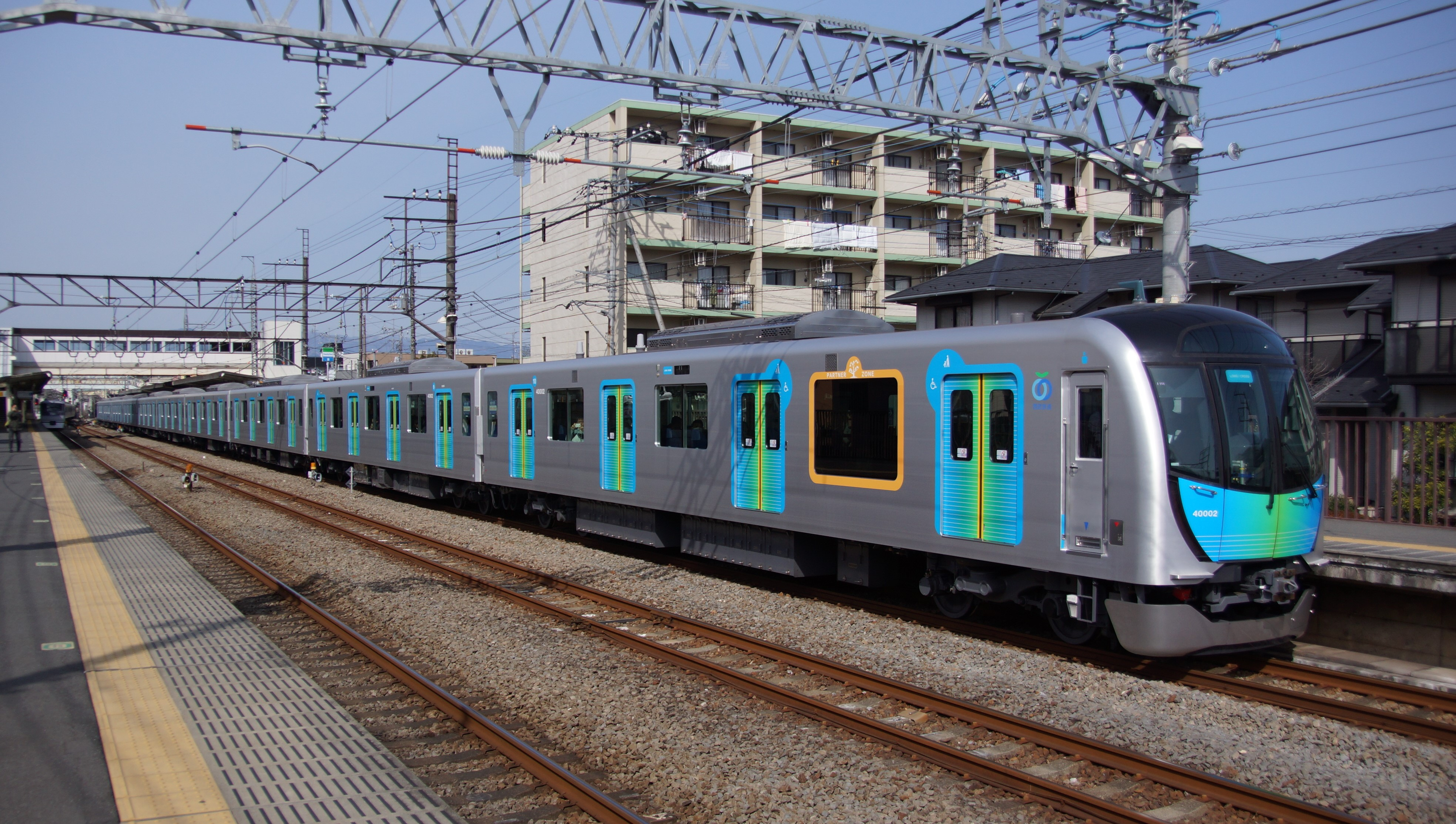 Seibu 40000 series EMU set 40102 passing through Bushi Station on the Seibu Ikebukuro Line on the S-Train 2 service from Hanno to Motomachi-Chukagai on the first day of services